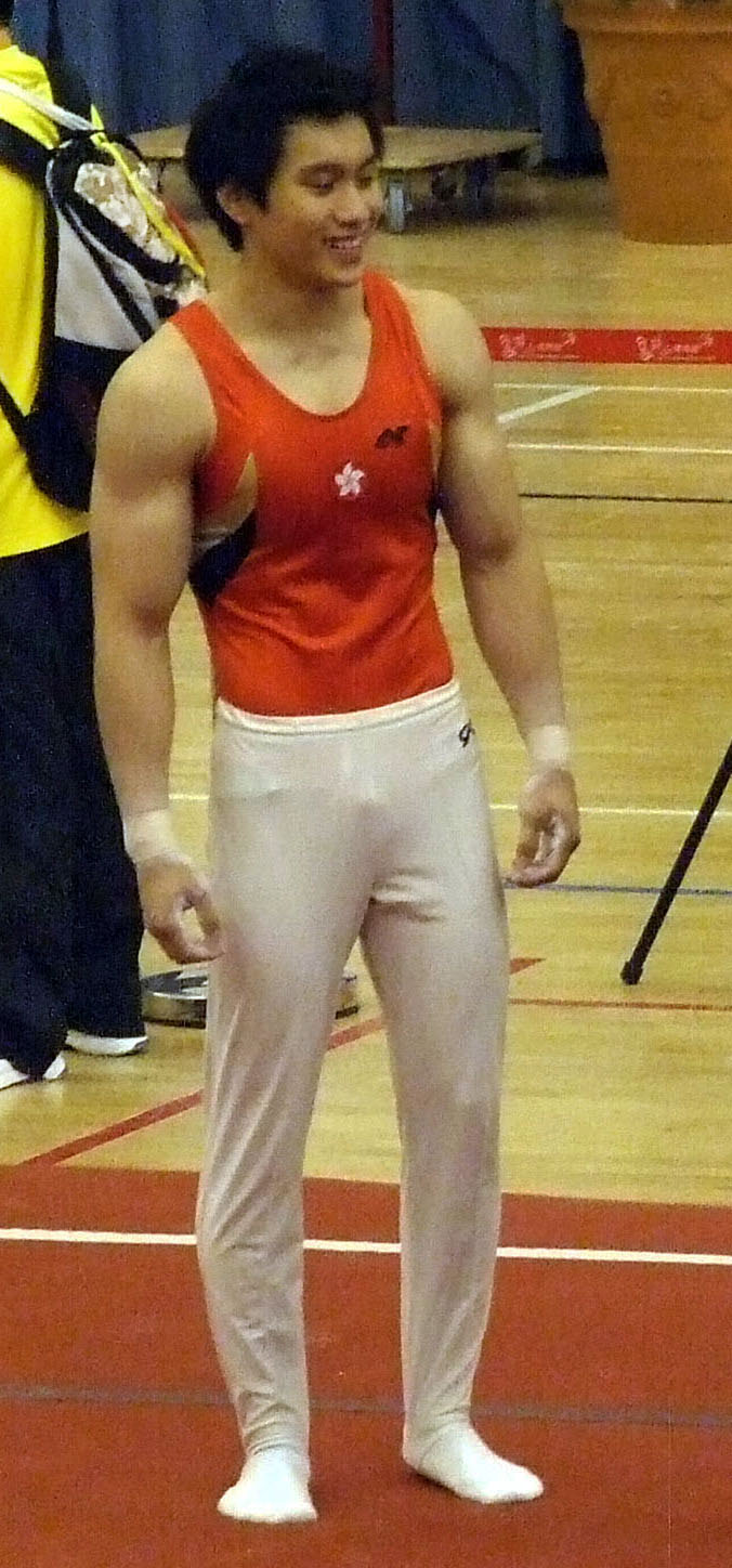 Hong Kong Gymnast - NG Kiu-chung